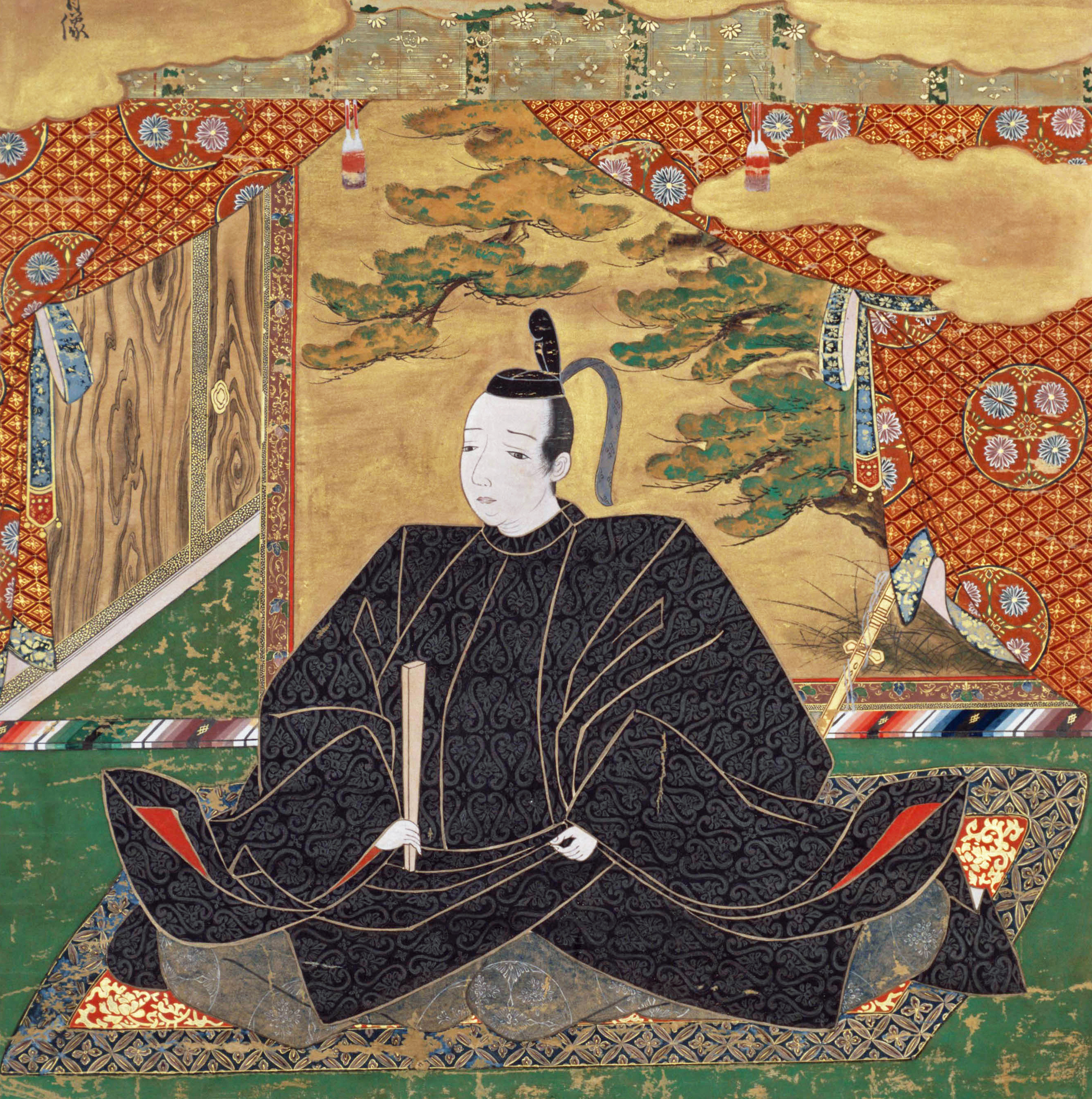 A portrait of Hideaki Kobayakawa (1577–1602), colors on silk. Cropped version.